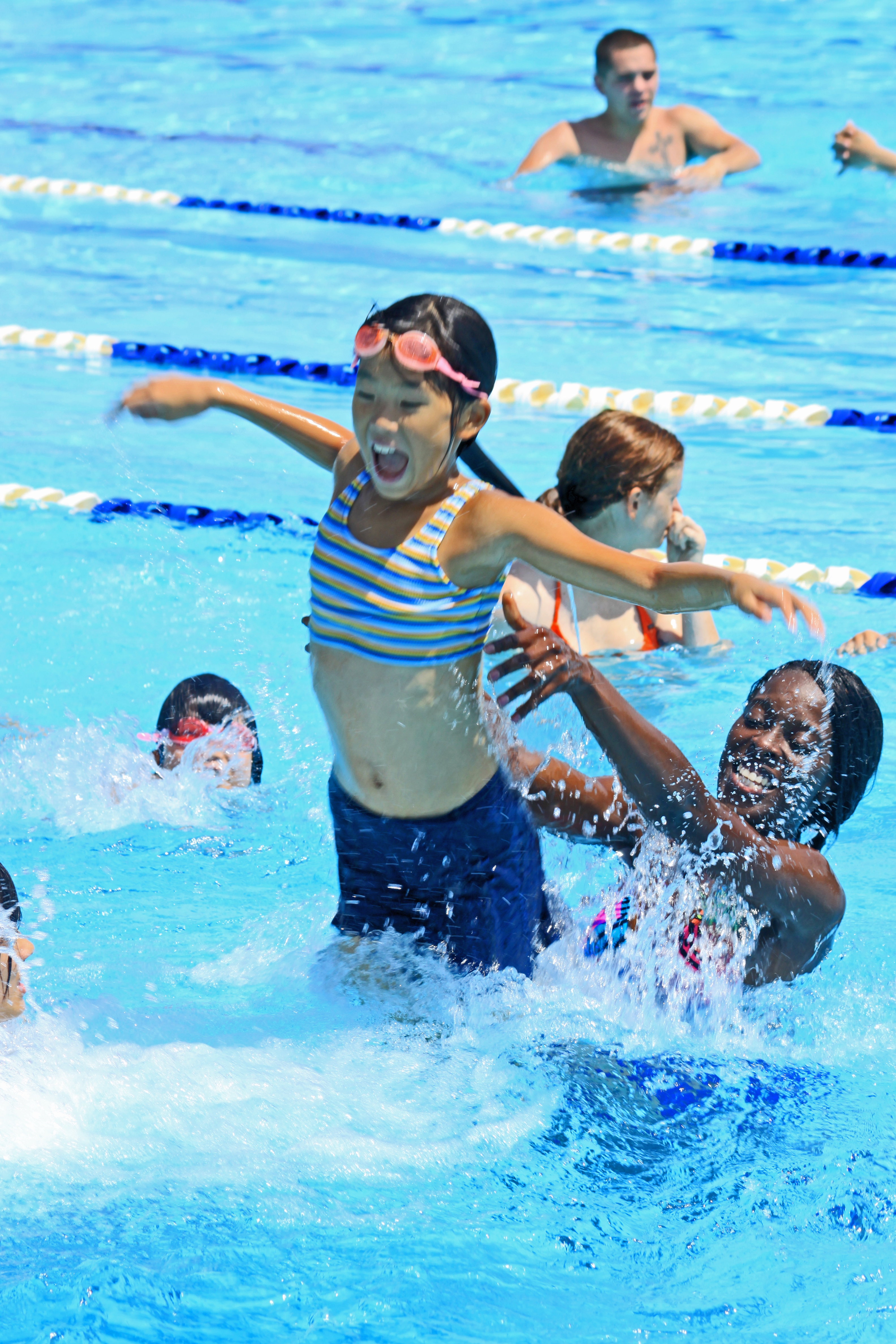 Yamekia Cushenberry, station volunteer, throws a Garden of Light Children’s Home child in the WaterWorks Pool here Sept. 1, 2012. “Sponsoring this event is a good thing to do because these orphans really want to socialize with other people,” said Fulgencio L. Legaspi, station volunteer and Headquarters and Headquarters Squadron chaplain. “We want to share our happiness and help the kids to be happy. If these children are happy then we are happy too.”